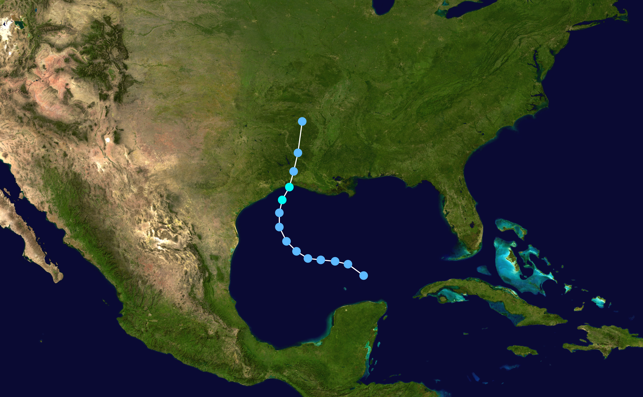 Tropical Storm Debra (1978) track. Uses the color scheme from the Saffir-Simpson Hurricane Scale.